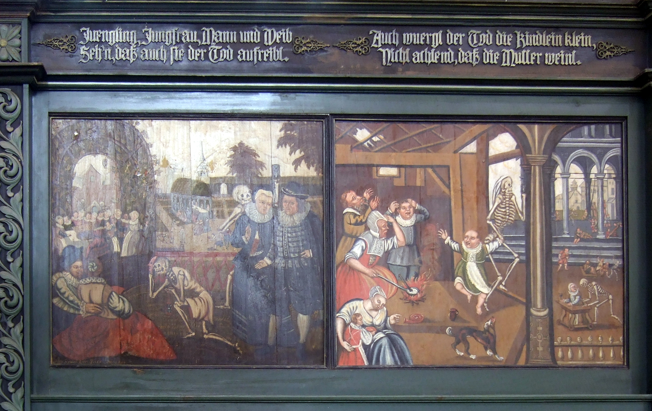 Totentanz-Gemälde in der Petrikirche, D-17438 Wolgast, Germany. Kinder und junge Leute.